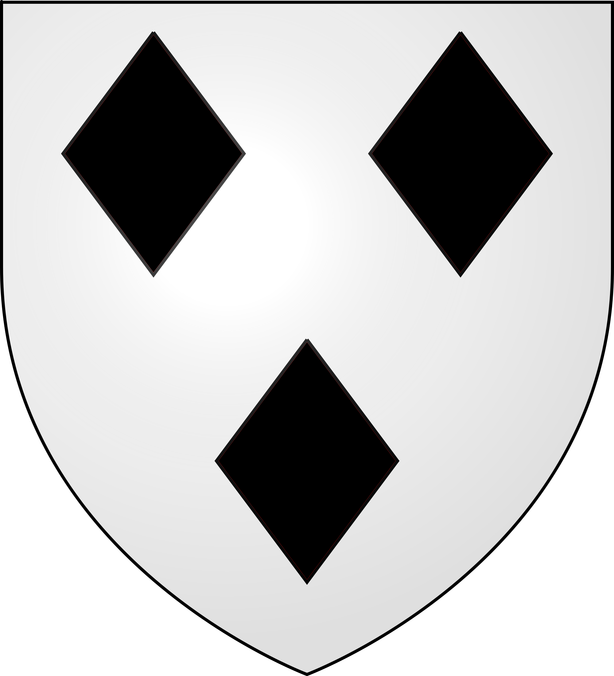 CoA of the Dampierre family (from Picardie, France). Argent, three lozenges sable. Illustrated by Aymar de Dampierre, Peer of France in 1827, and now by Emmanuelle de Dampierre, Duchess of Anjou and of Segovia, first wife of Jaime of Bourbon, son of king Alfonso XIII of Spain, therefore carlist pretender to the throne of Spain and legitimist to the throne of France.